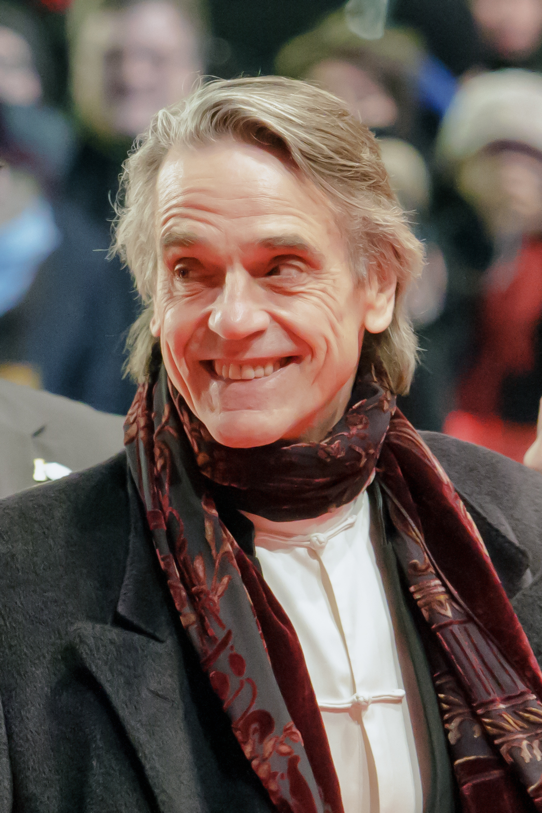 Jeremy Irons - Berlin International Film Festival (Berlinale) - 2013